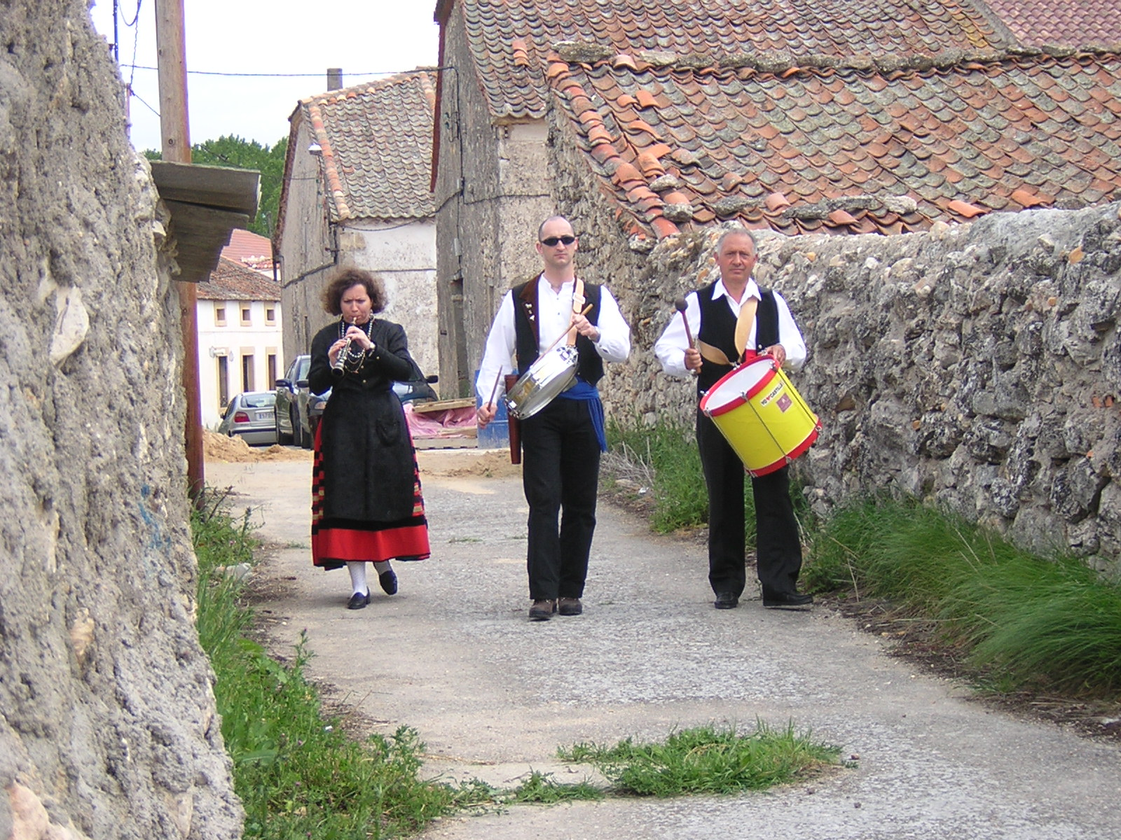 Duratón musiciens